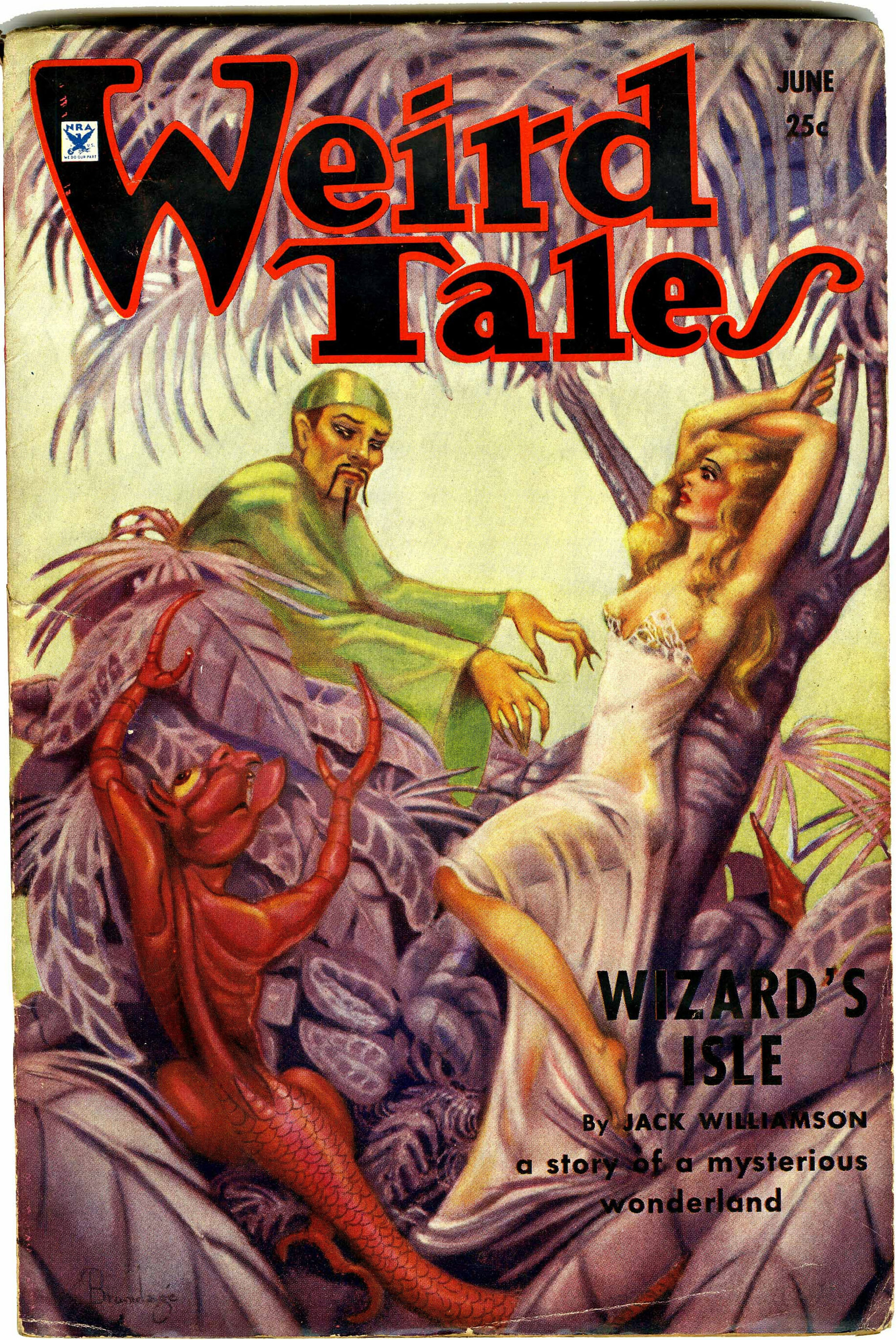 Cover of the pulp magazine Weird Tales (June 1934, vol. 23, no. 6) featuring Wizard's Isle by Jack Williamson. Cover by Margaret Brundage.